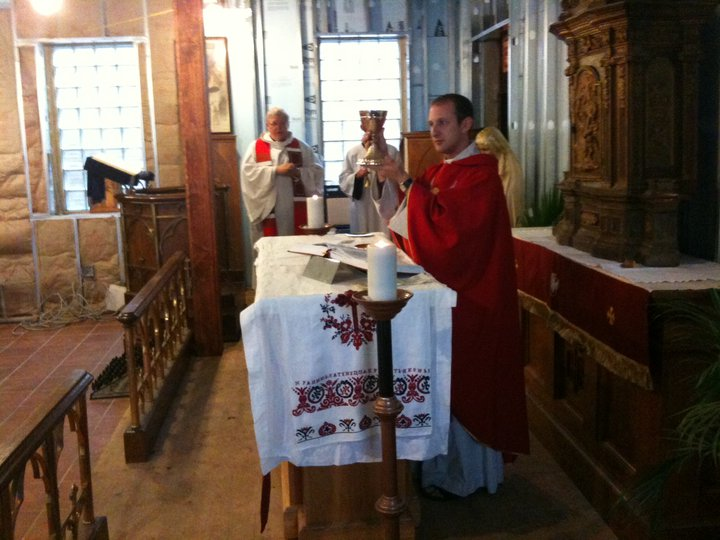 Image from Good Friday Mass 2011 at the Church of the Holy Paraclete